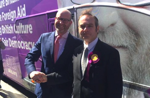 UKIP leader in Clacton with UKIP candidate.